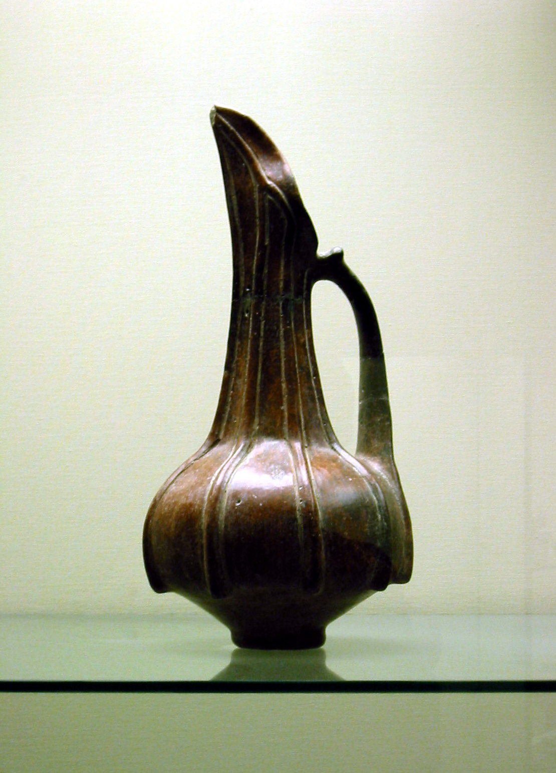 An etruscan jug. Pottery at the Museo Nazionale Tarquinese in Tarquinia, the ancient Tarquinii, in Lazio, Italy